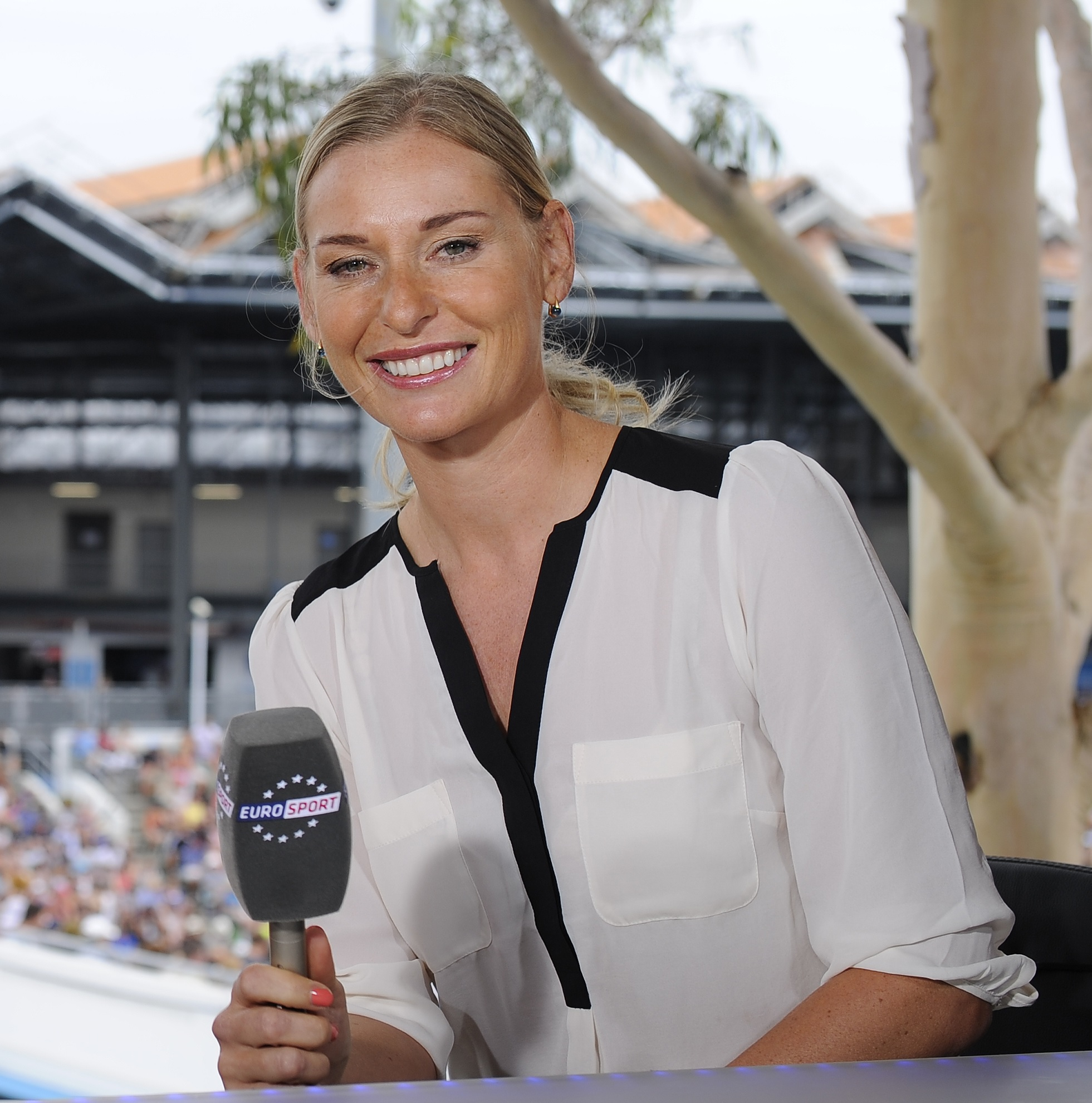 Barbara Schett in the Eurosport studio during the 2014 Australian Open at Melbourne Park.